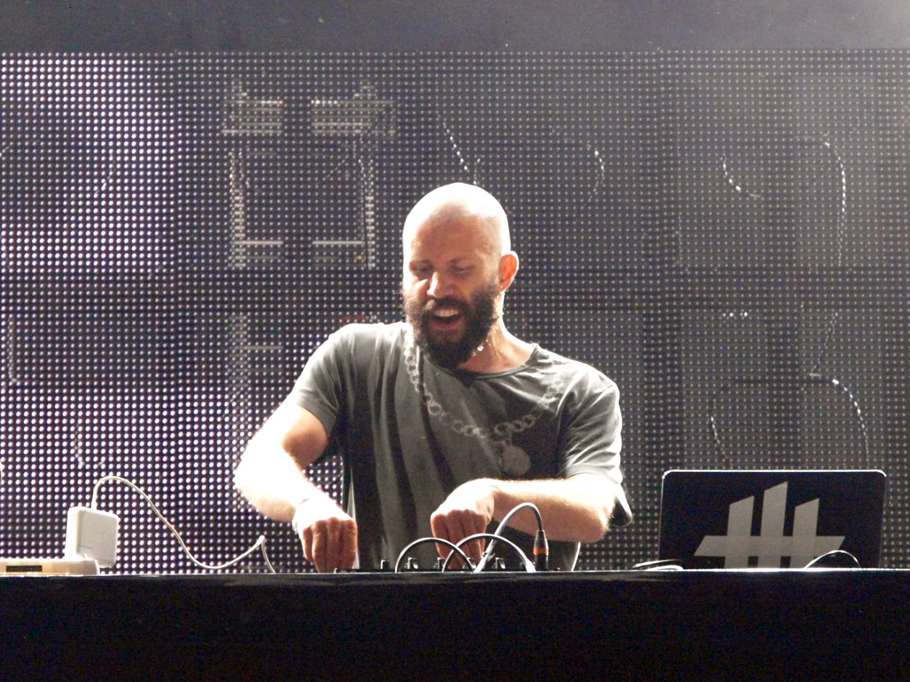 Finnish electronic project Huoratron at Provinssirock 2013